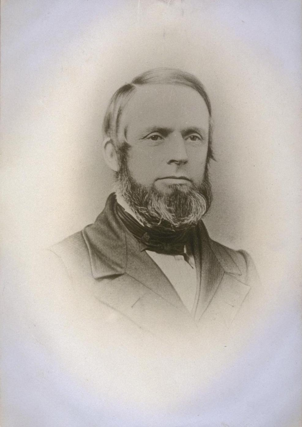 Sherman Day (1806-1884), American historian, California State Senator, United States Surveyor General for California, and trustee of the University of California